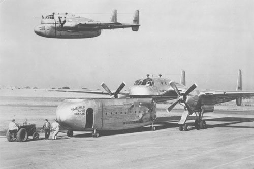 "The Fairchild XC-120 Packplane, a converted C-119B, had a removable cargo compartment. This was the only one built." Since two XC-120 aircraft are shown, this image is presumably a composite. Image is a photograph from the U.S. Air Force Aeronautic Systems Center History Office website.